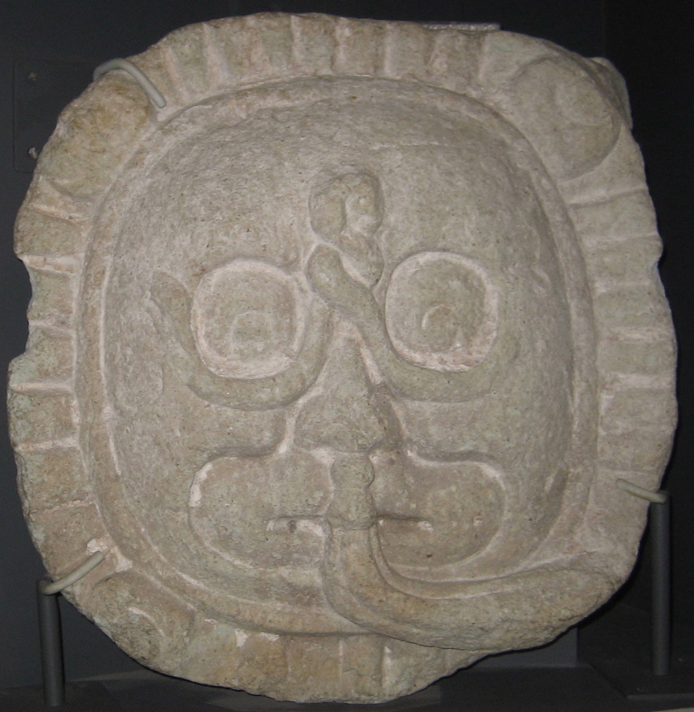 Maya classic scupture: shield in form of Sun God face from Copan. Achitectural detail now in Peabody Museum, Cambridge, Massachusetts, USA